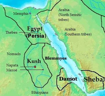 Map of kingdoms, states and tribes in 400 BC Africa.